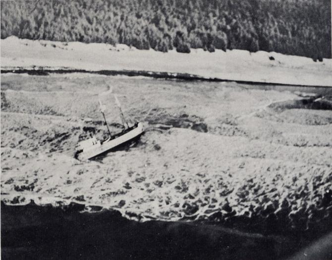 NOAA caption: The PATTERSON lost near Cape Fairweather, Alaska. NOAA caption further states "Lost within twenty miles of its first survey"; which appears incorrect, the Patterson's first major survey was Dixon entrance and the southern part of Clarence strait. The sentence (see pp177-9 of this link) may refer to a stop at Sitka. Caption on uncropped photo carries attribution to U S Navy.